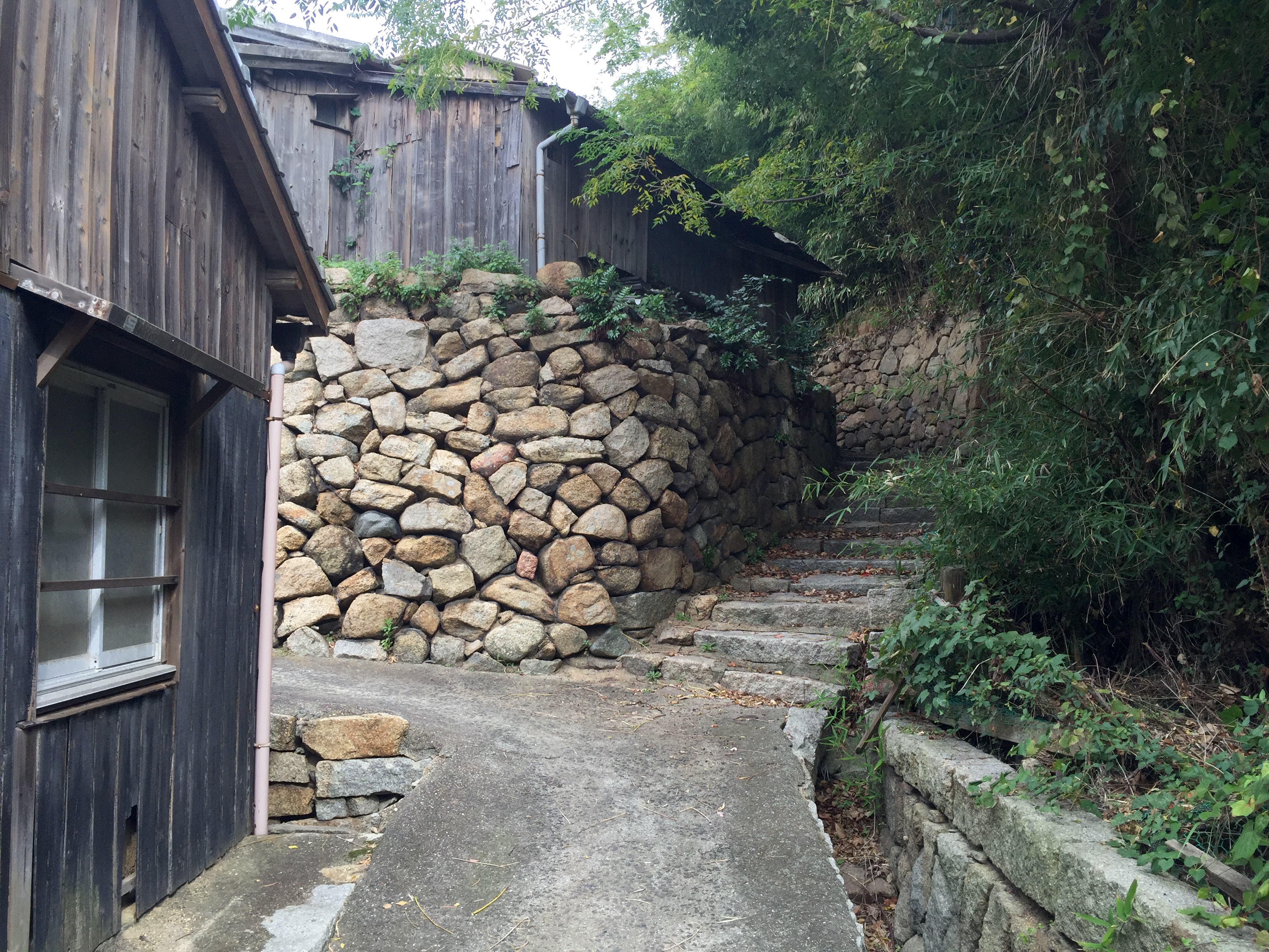 An alley in Yoshima island